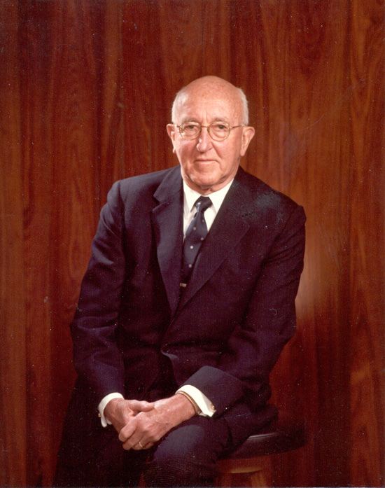 Catalog #: BIOA00082 Last Name: Allen First Name: William Notes: Repository: San Diego Air and Space Museum Archive